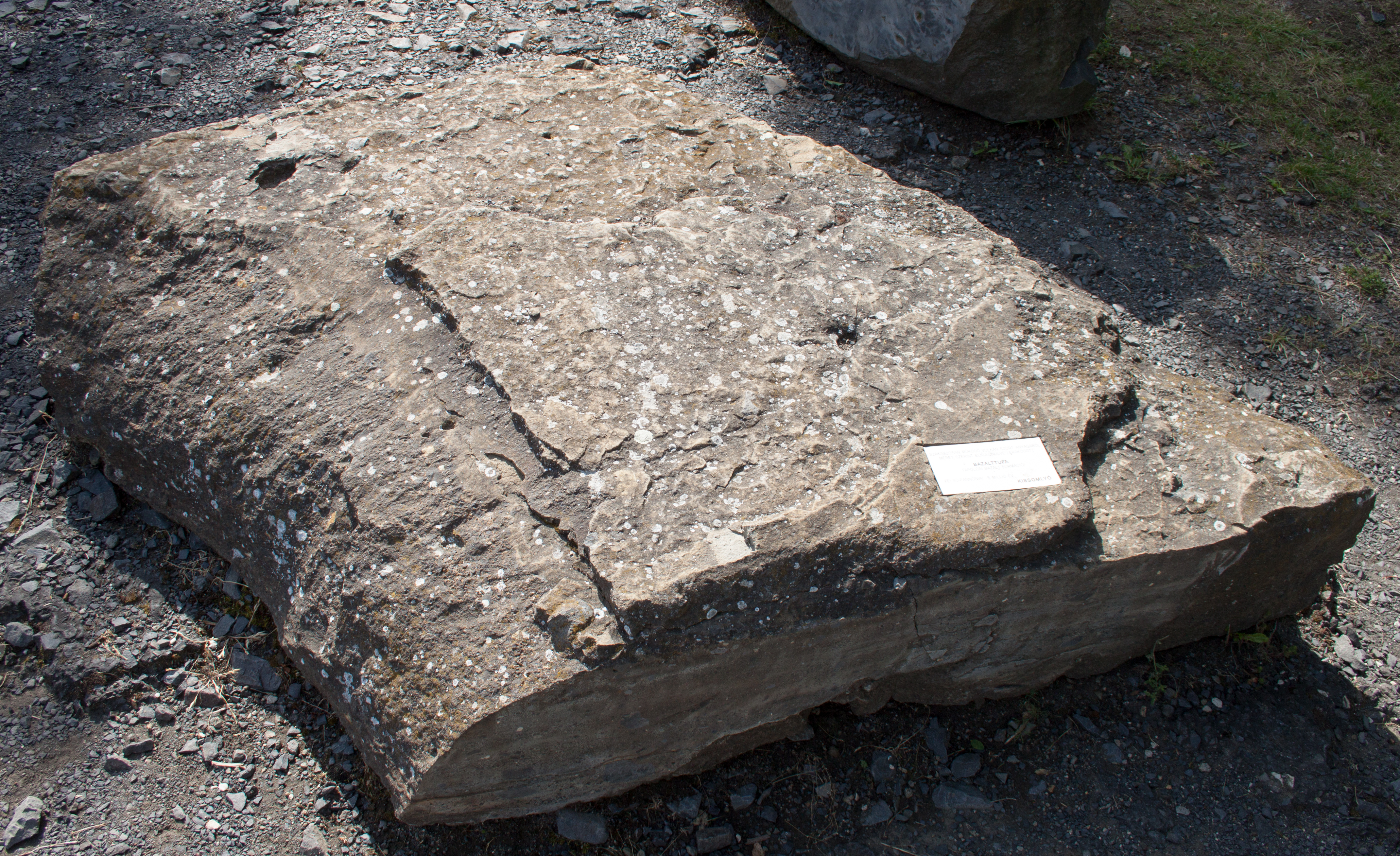 Basalt tuff, Late Pannonian, 5 million years old, Kissomlyó